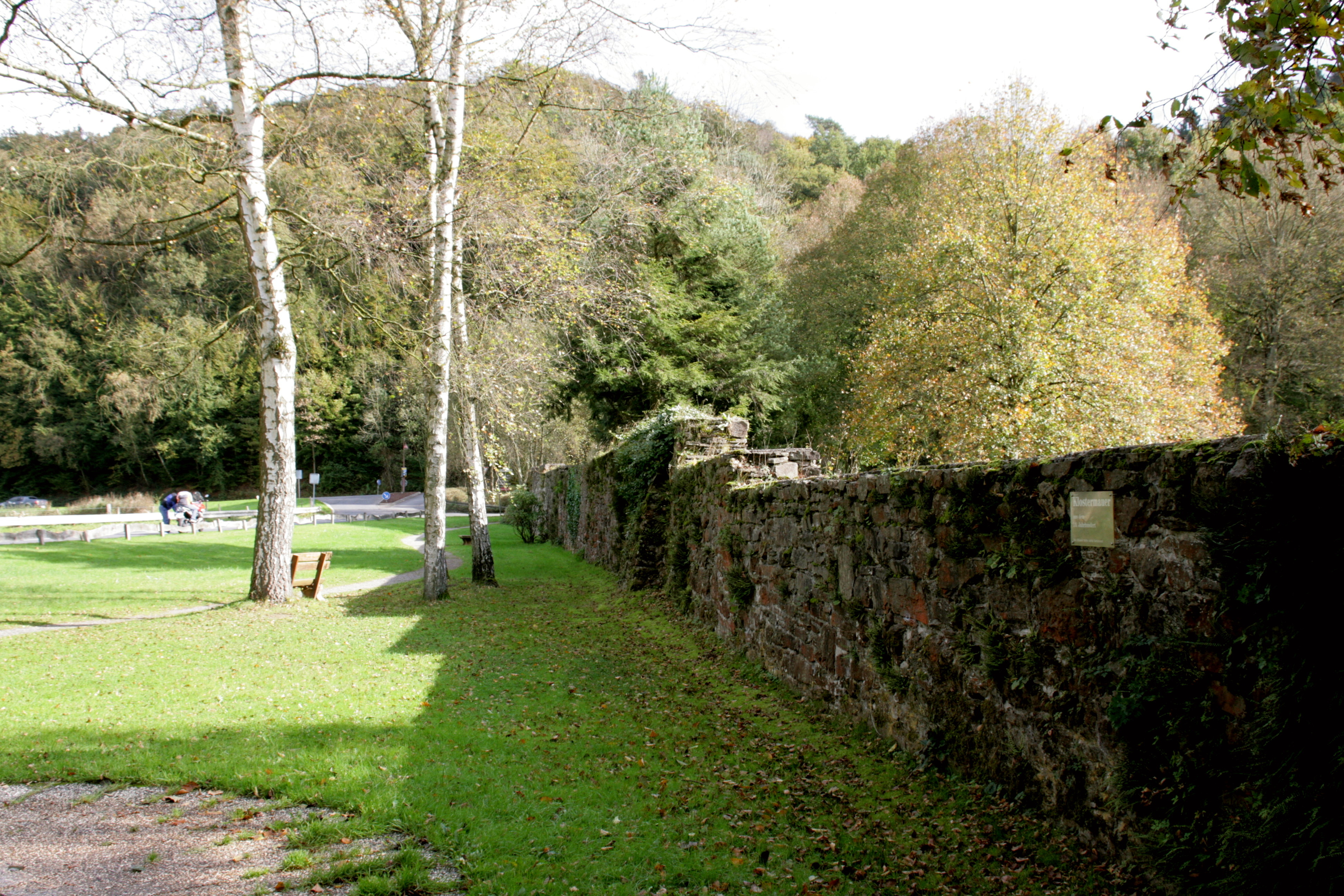 Altenberger Klostermauer, Märchenwaldweg in Altenberg, Odenthal